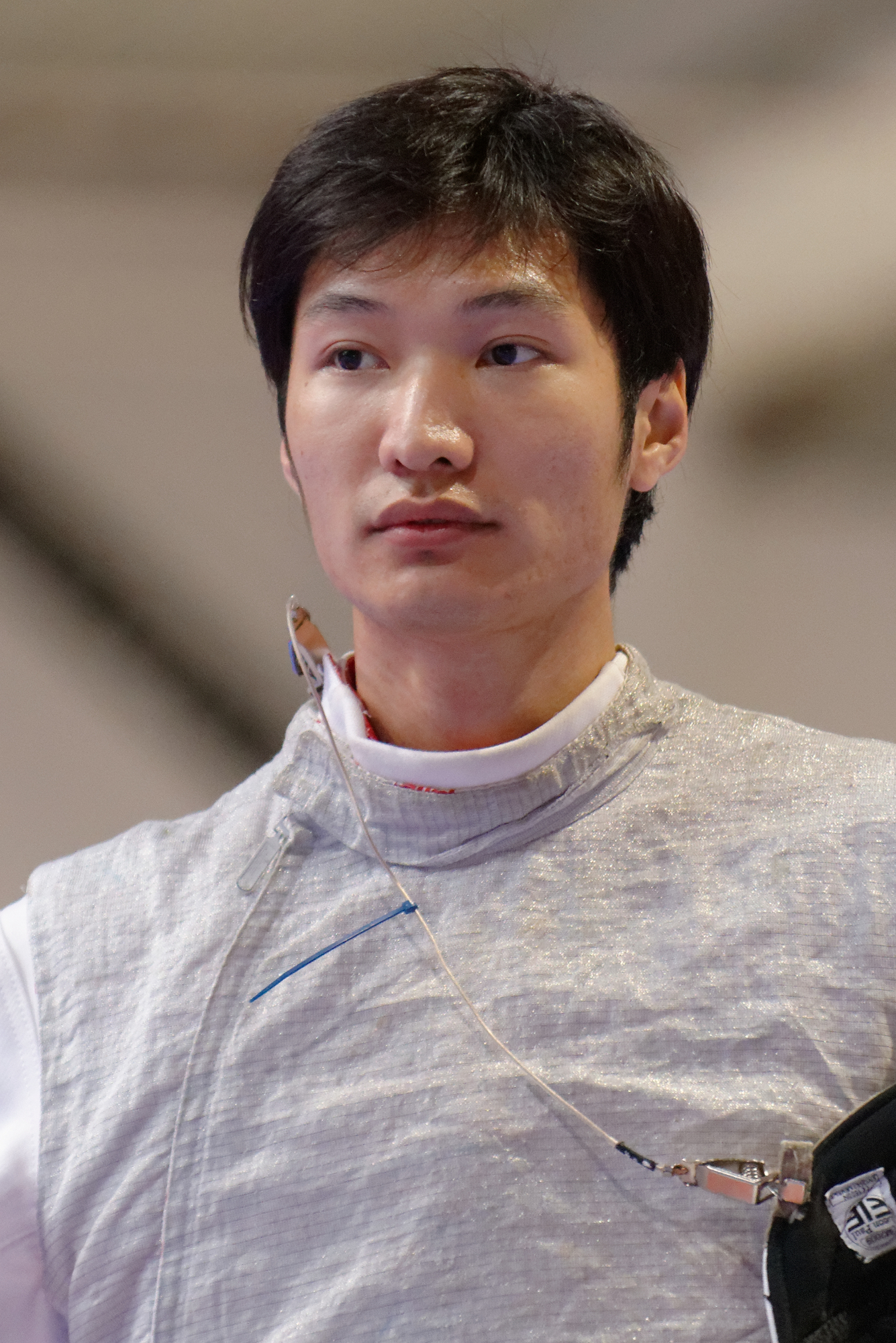 China's Lei Sheng at the men's team foil event of the 2013 World Fencing Championships 2013 at Syma Hall in Budapest, 12 August 2013.